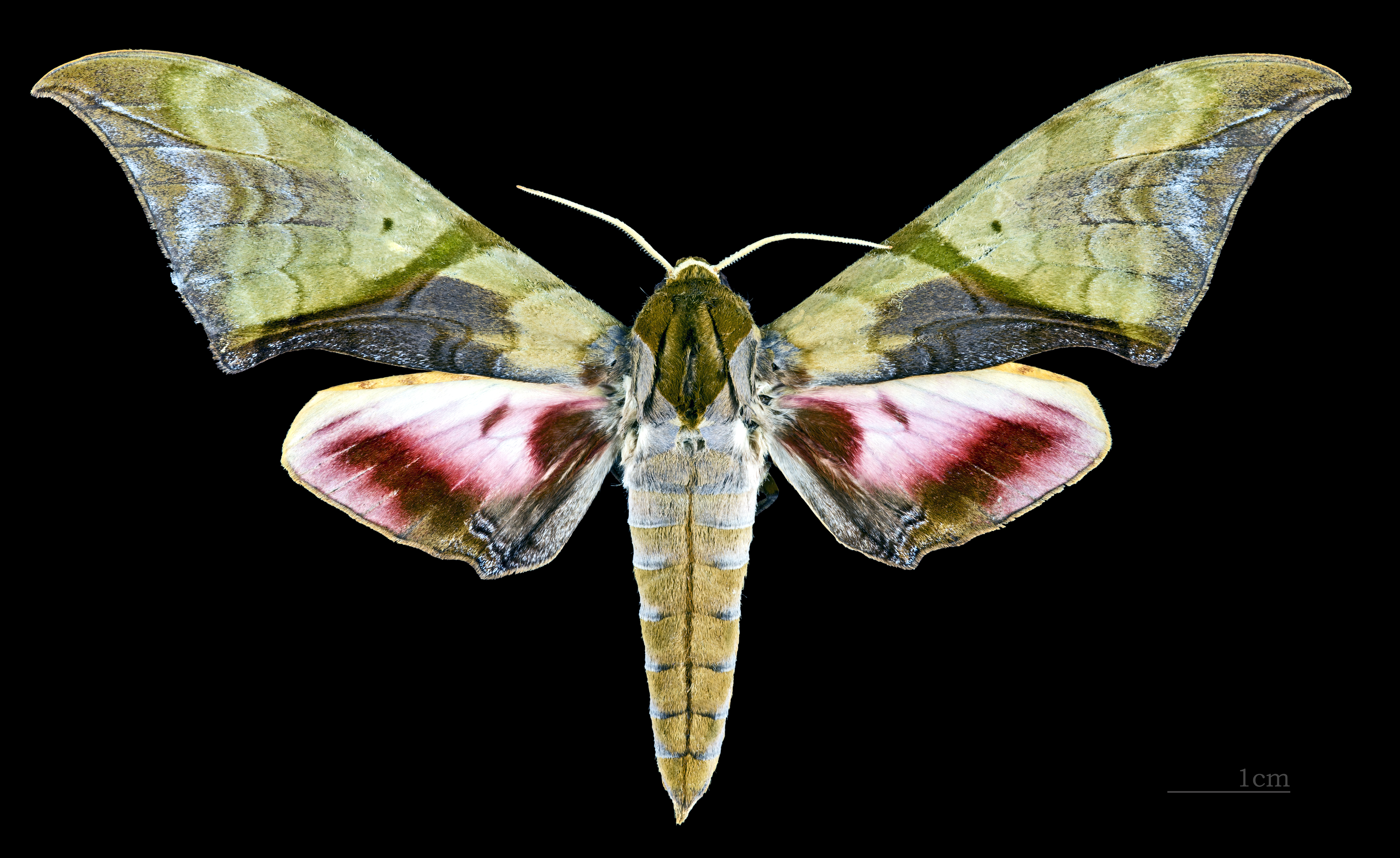 Callambulyx rubricosa rubricosa - Dorsal side Collection of the Mathematician Laurent Schwartz